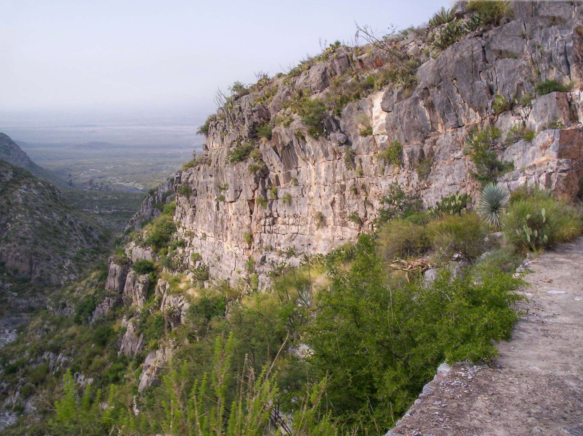 Durango landscape